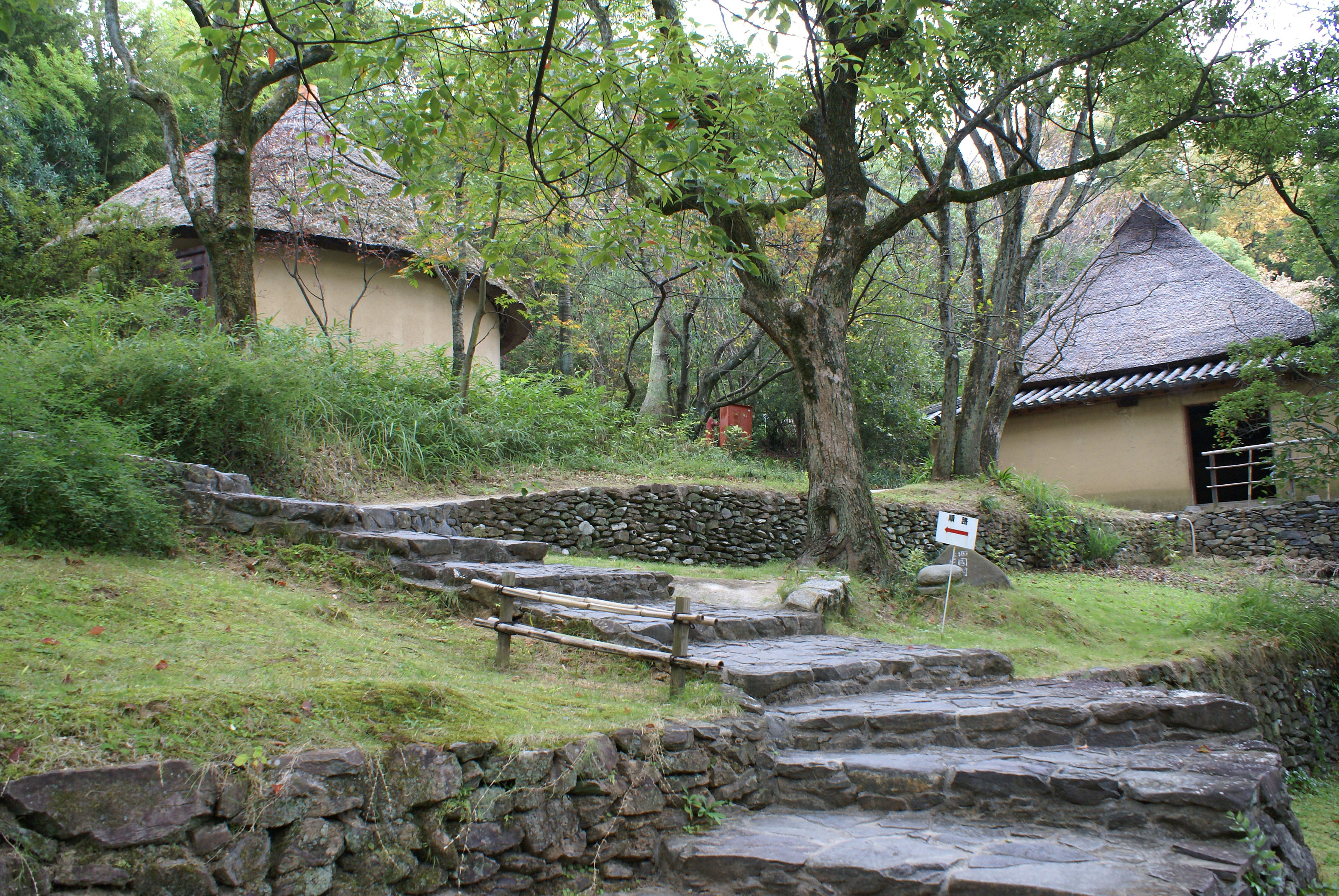 Shikokumura in Takamatsu Kagawa prefecture, Japan